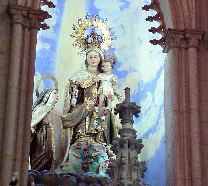 Statue of the Madonna and Child with Saint Therese of Lisieux, Igreja de Santa Teresinha, Porto Alegre, Brazil.